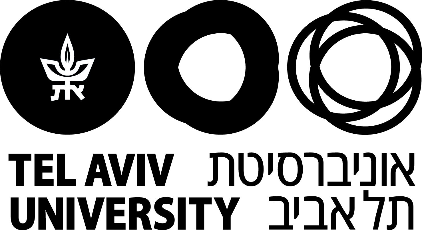 Tel Aviv university logo - English